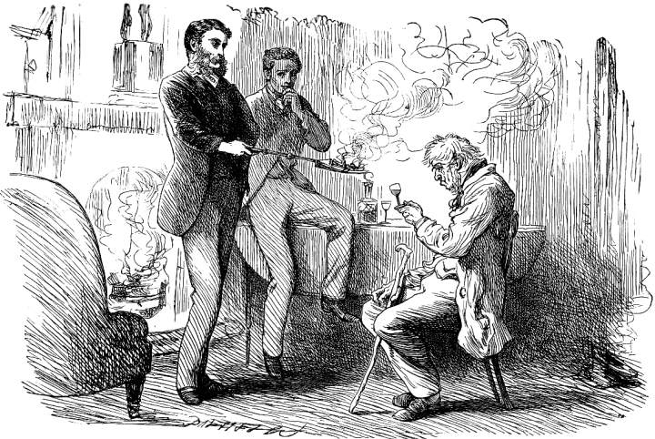 Eugene is interrogating "Mr. Dolls" (Jenny Wren's alcoholic father) about Lizzie's whereabouts